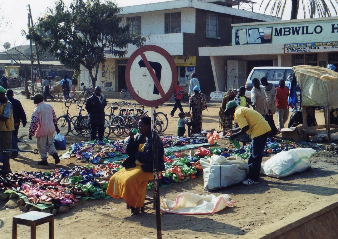 Sumbawanga Market, Tanzania